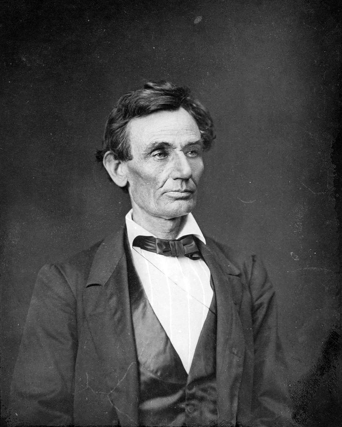 Abraham Lincoln Photograph, platinum print from wet plate collodion glass negative. Ostendorf O-27; Meserve M-25.